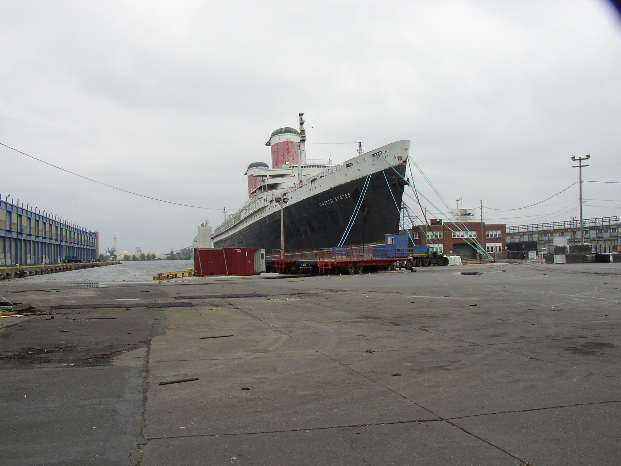 Photo of SS United States from Columbus Blvd (aka Delaware Ave).